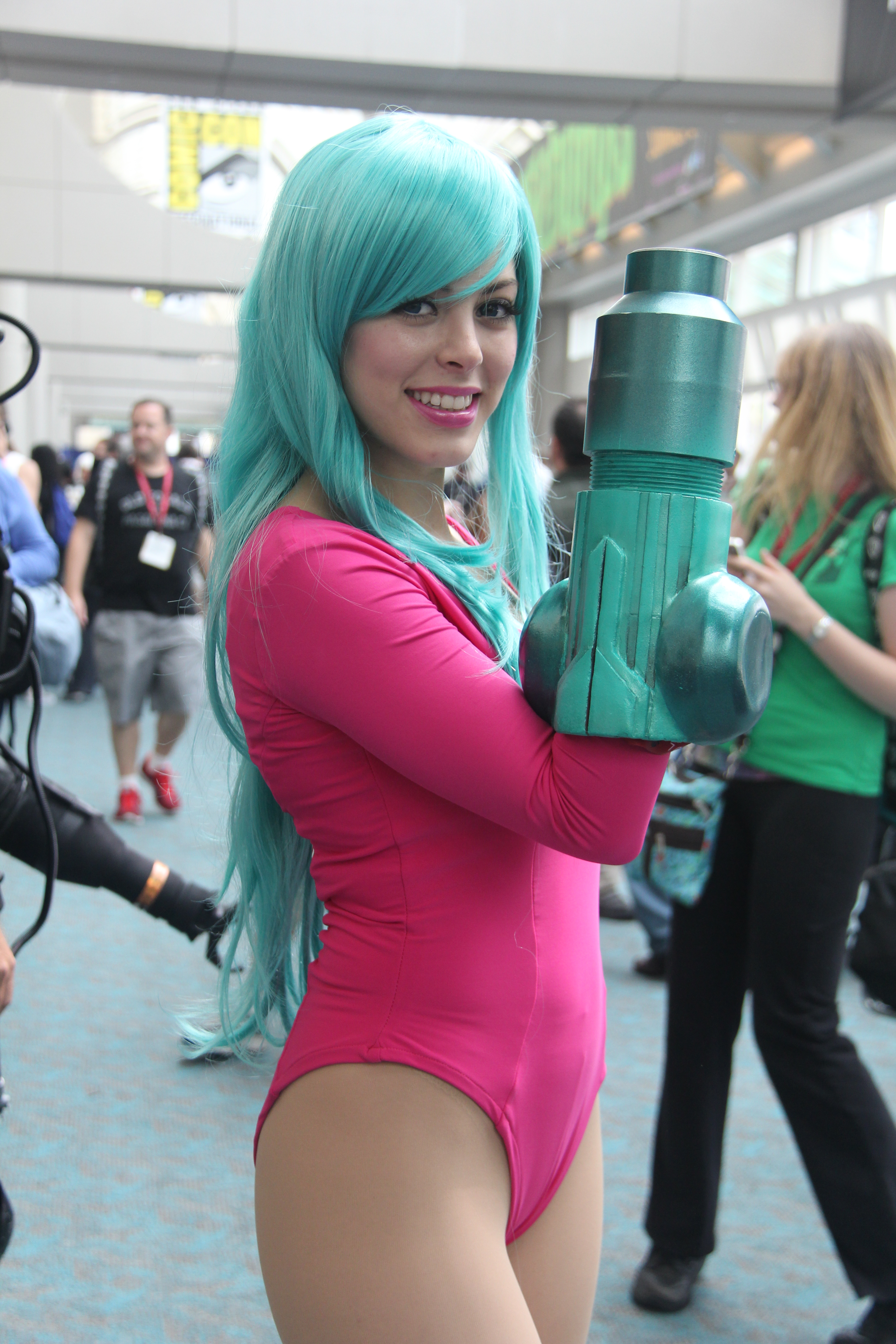 Nadya "NadyaSonika" Anton cosplaying as Samus Aran (from the Metroid series of video games) at San Diego Comic-Con 2014 (SDCC 2014).